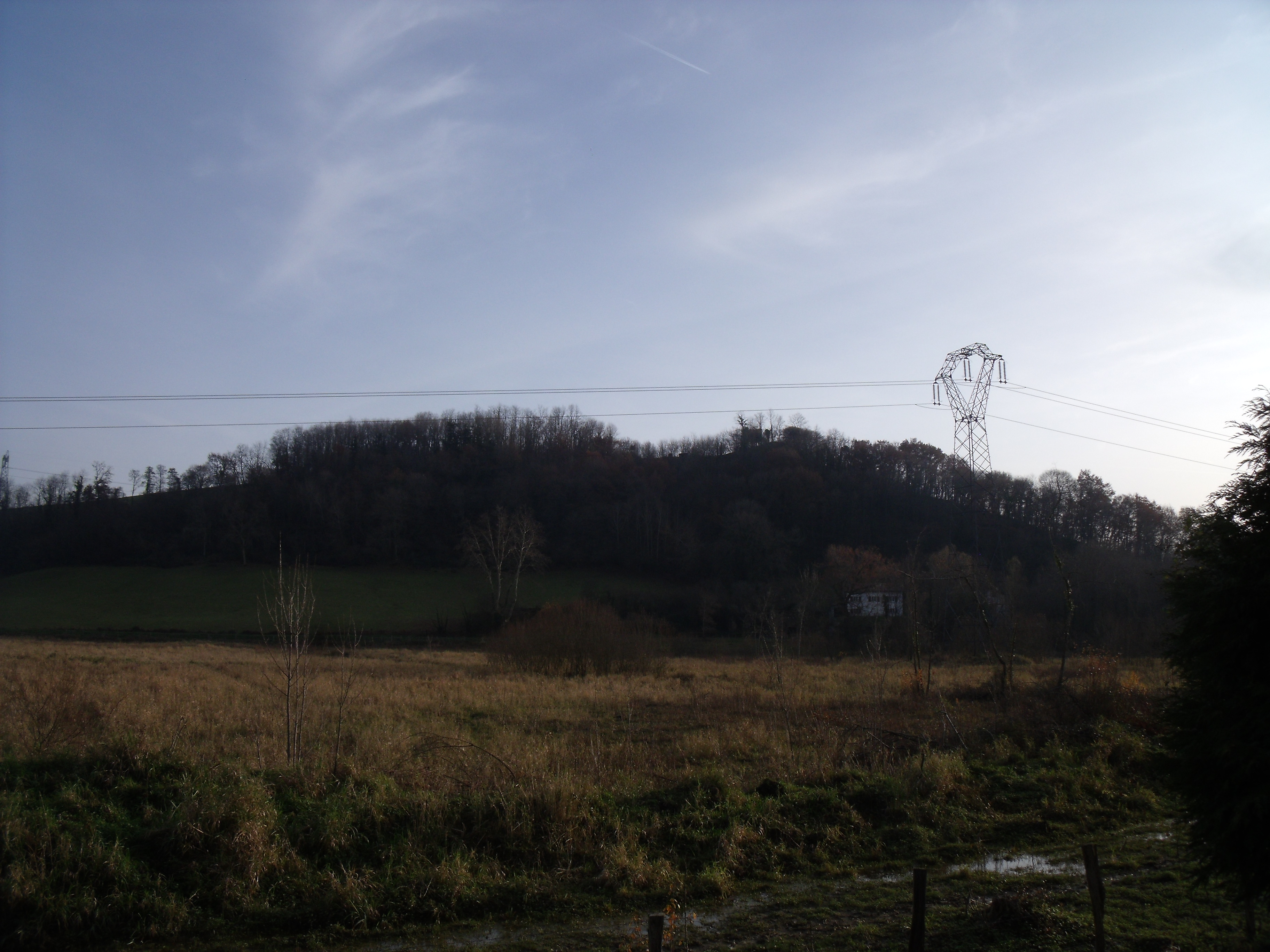 Tuc of Biscarrague or Bizkaraya.